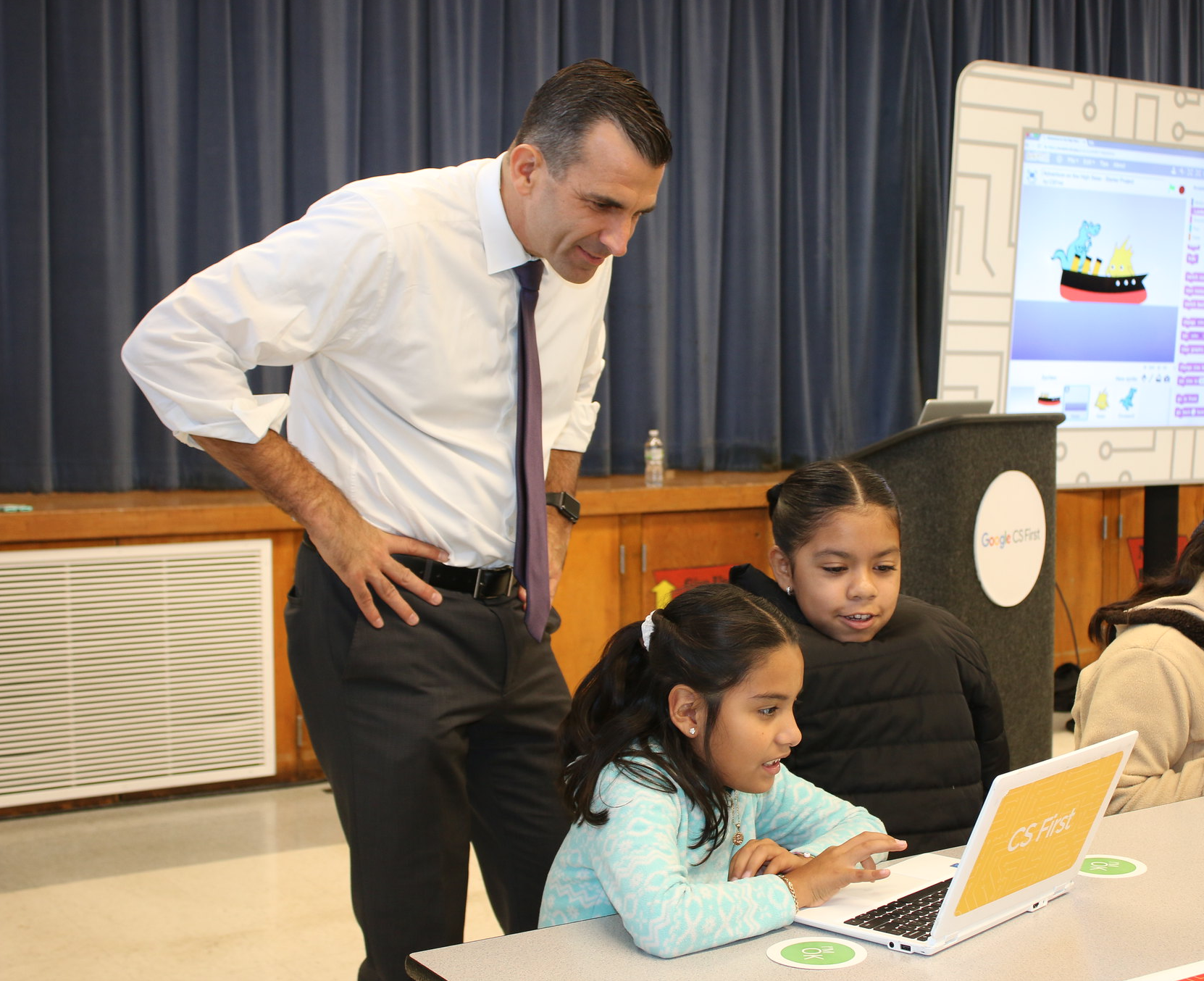 Sam Liccardo meets students at Google CS First Event